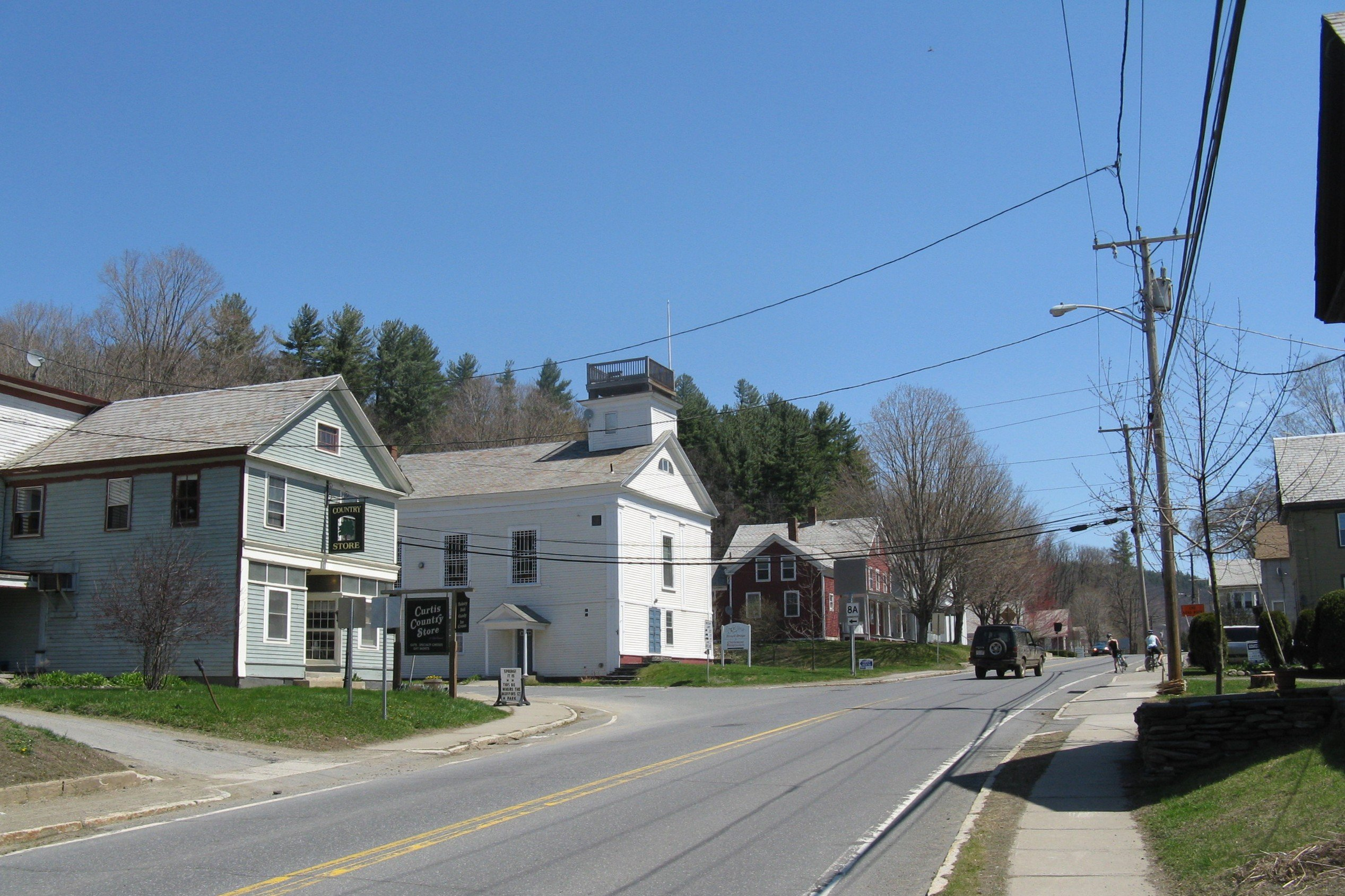 Curtis Country Store, Charlemont Massachusetts